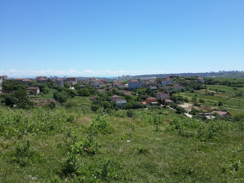 Kayabaşı köyü, Başakşehir